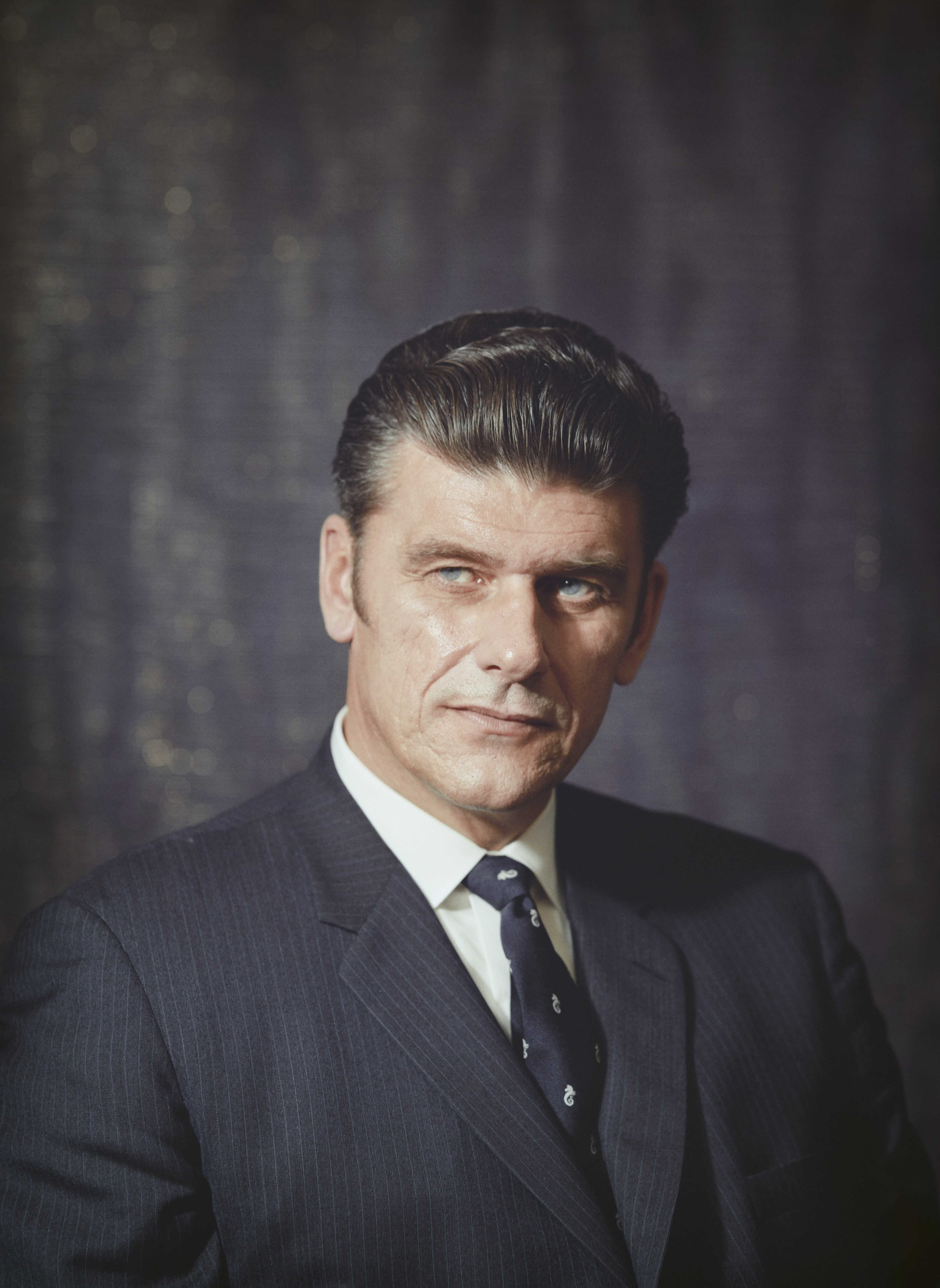 Photograph of the Finnish sailor Sven-Olof Hultin (1920–2013).